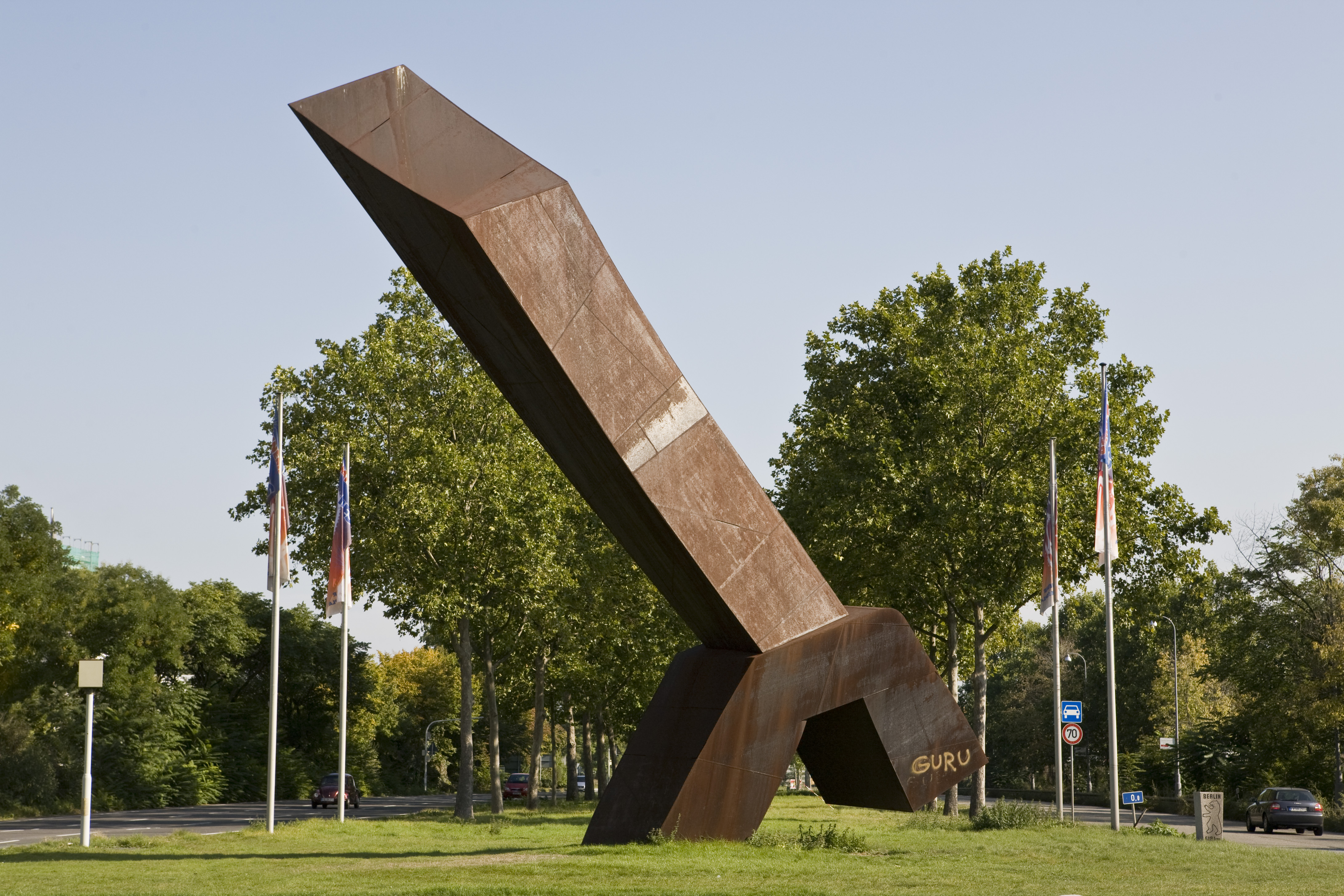 Sculpture Wilhelm-Varnholt-Allee, Mannheim